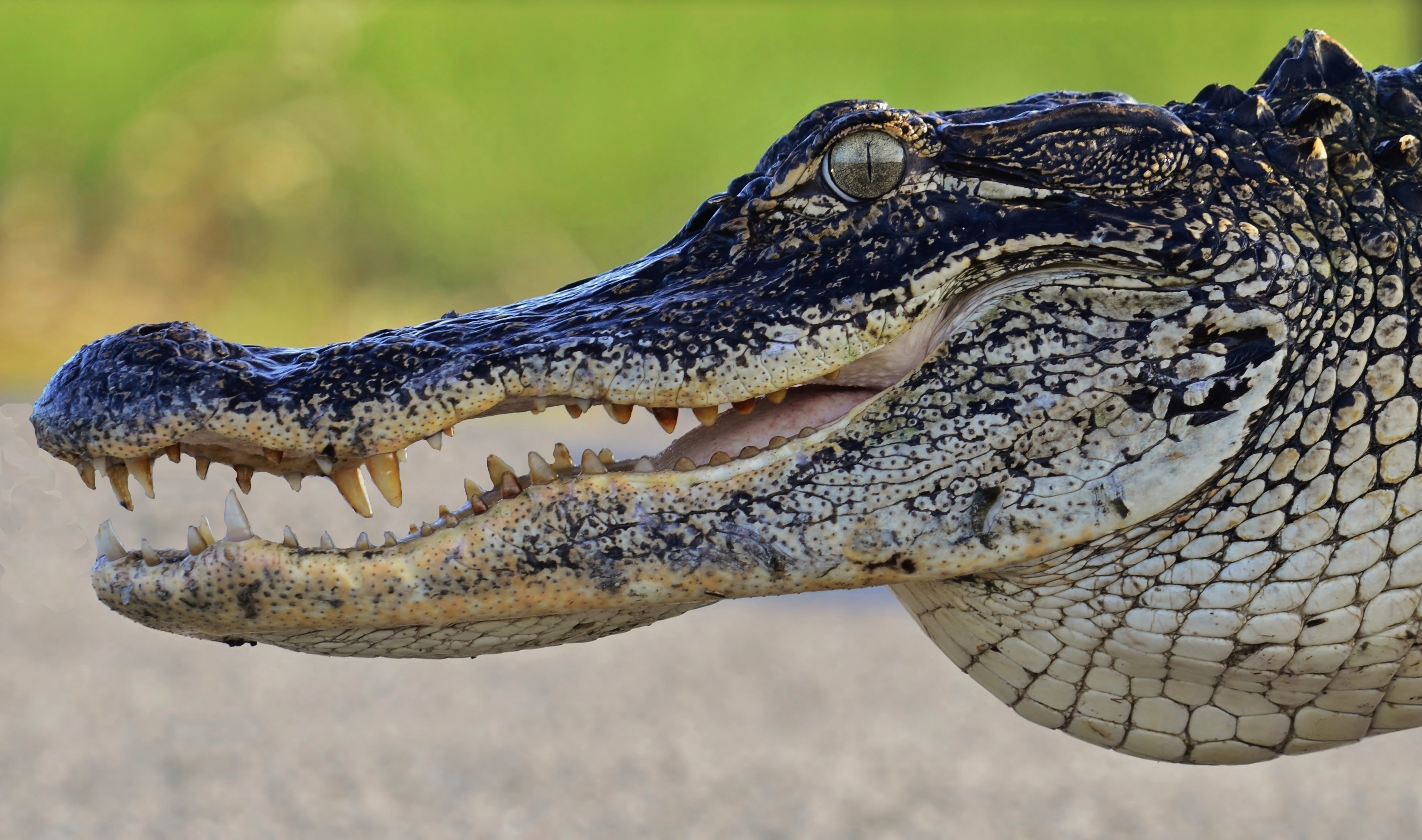 Huntington Beach State Park, Murrells Inlet, South Carolina